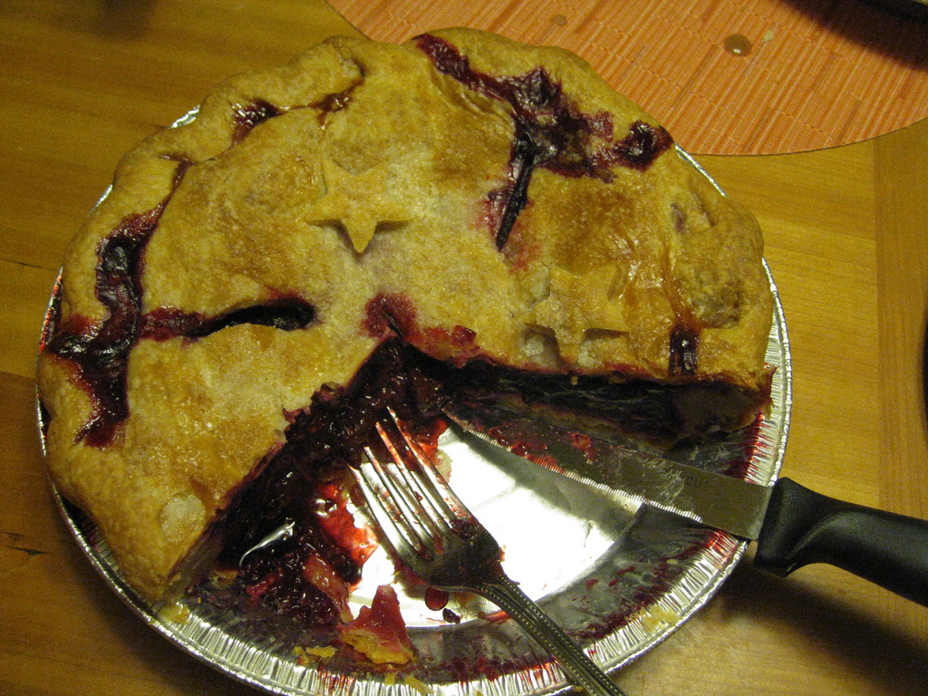 Shoofly raspberry pie